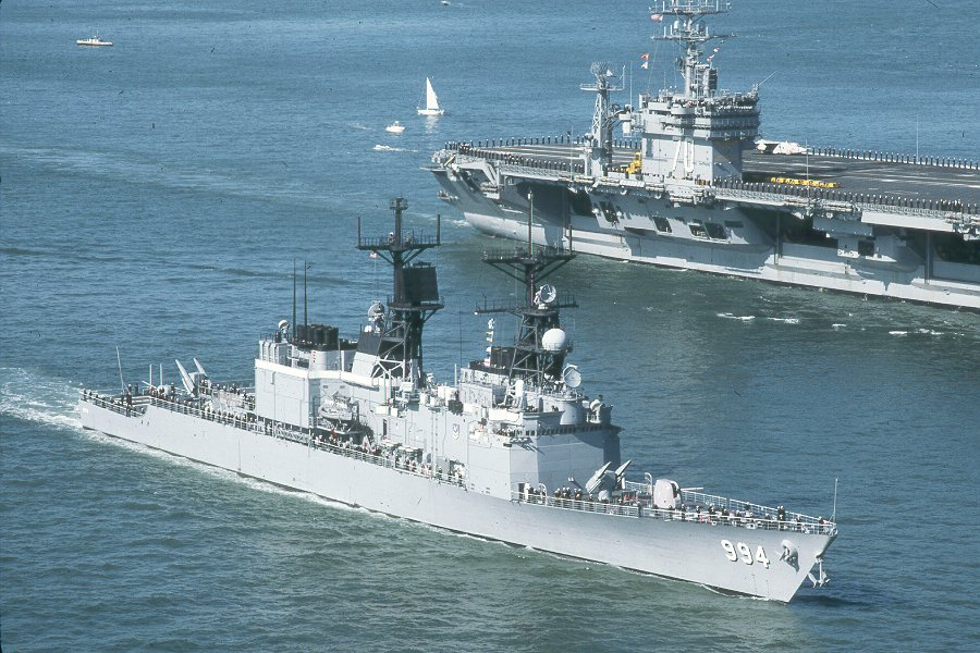 The U.S. Navy guided missile destroyer USS Callaghan (DDG-994) underway in the 1980s. The aircraft carrier USS Carl Vinson (CVN-70) is visible in the background.